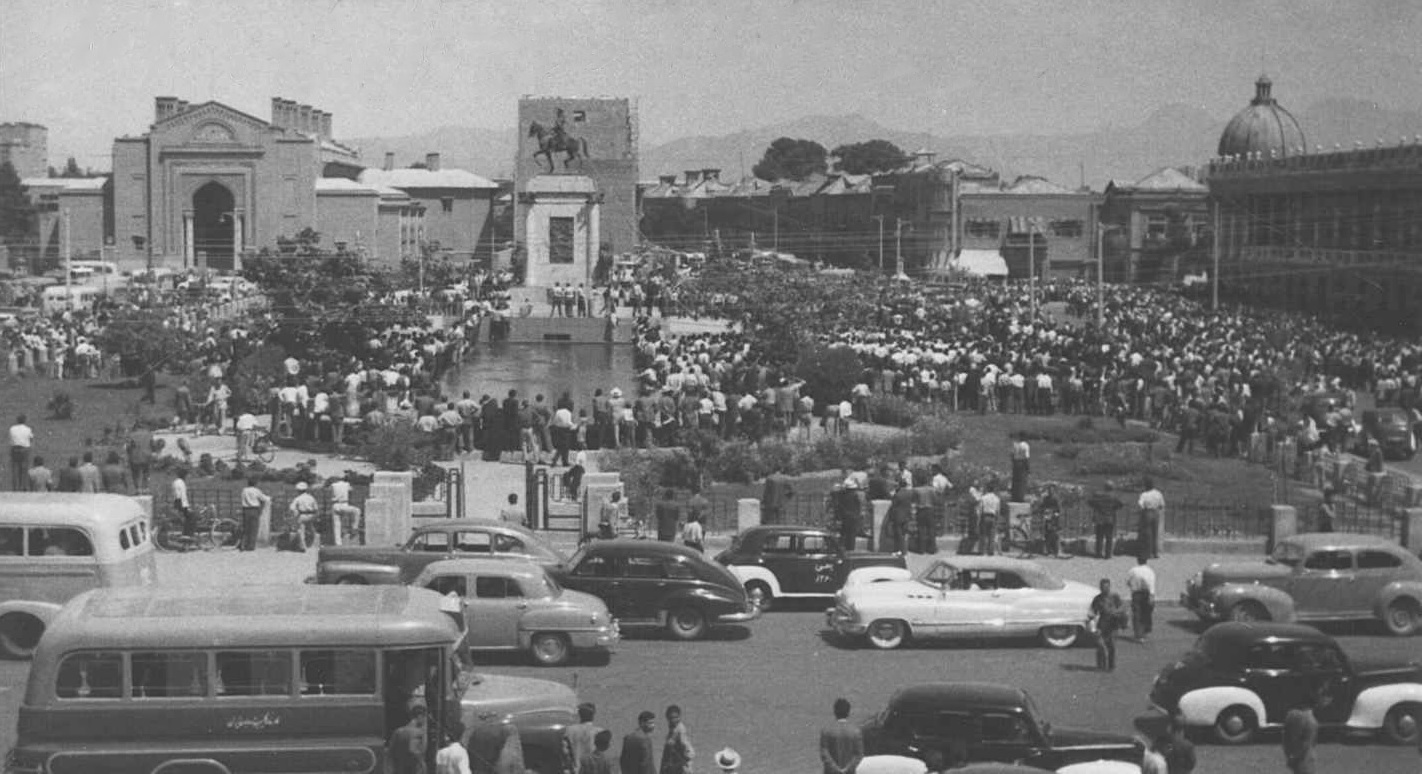 Meeting of members and supporters of Tudeh Party in Tehran Toopkhaneh sq - August 1953 main album.